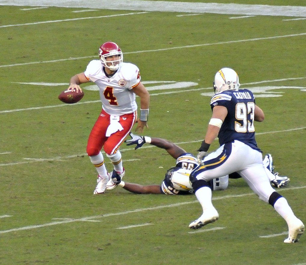 Tyler Thigpen avoids a tackler in a game agains the San Diego Chargers.